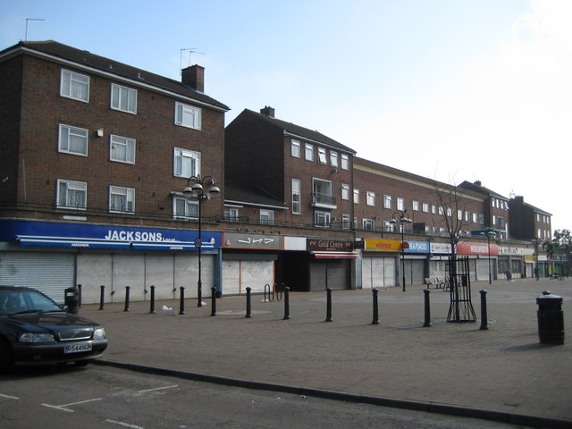 South Oxhey: St Andrew's Road shops St Andrew's Road is a wide pedestrian precinct containing the main shops in South Oxhey. Since retail units tend to change ownership and use over time, for the record in June 2009, the occupiers were, left to right, Jacksons, nameless, the Gold Centre, Wimpy, Cheapjacks, Taylor Convenience Store, the late lamented Woolworths, and Homecraft.